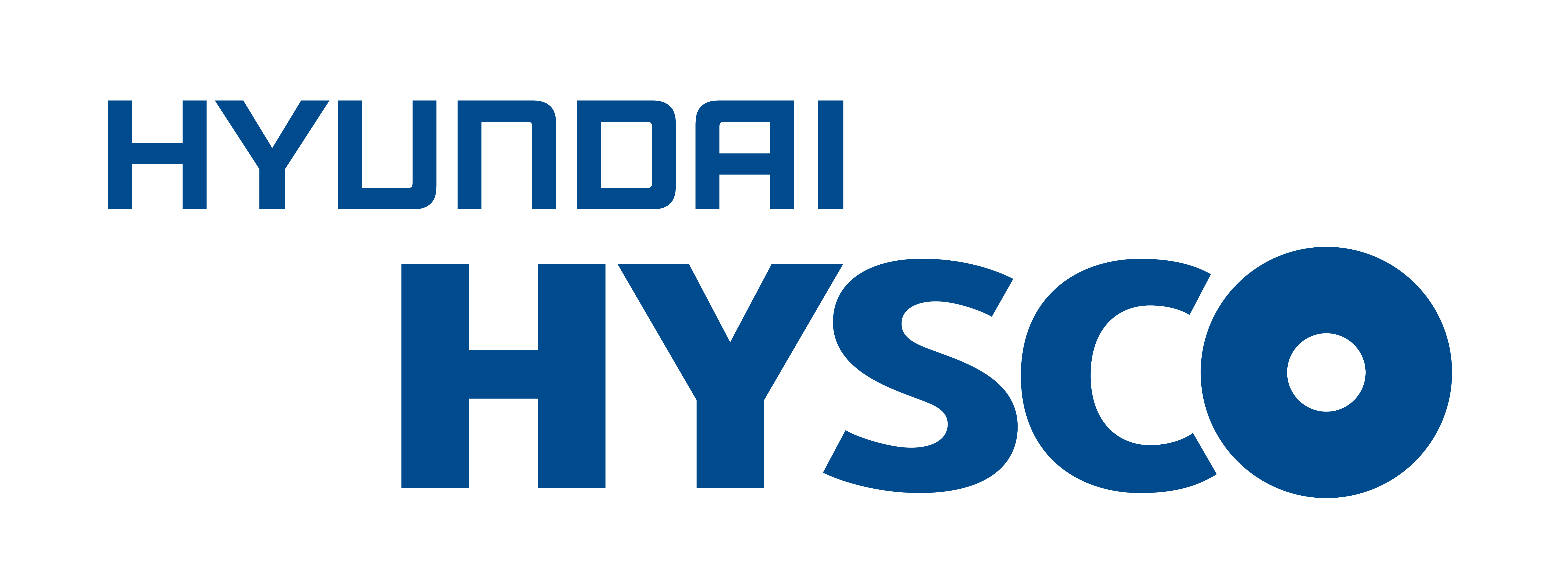 Hyundai Hysco Logo